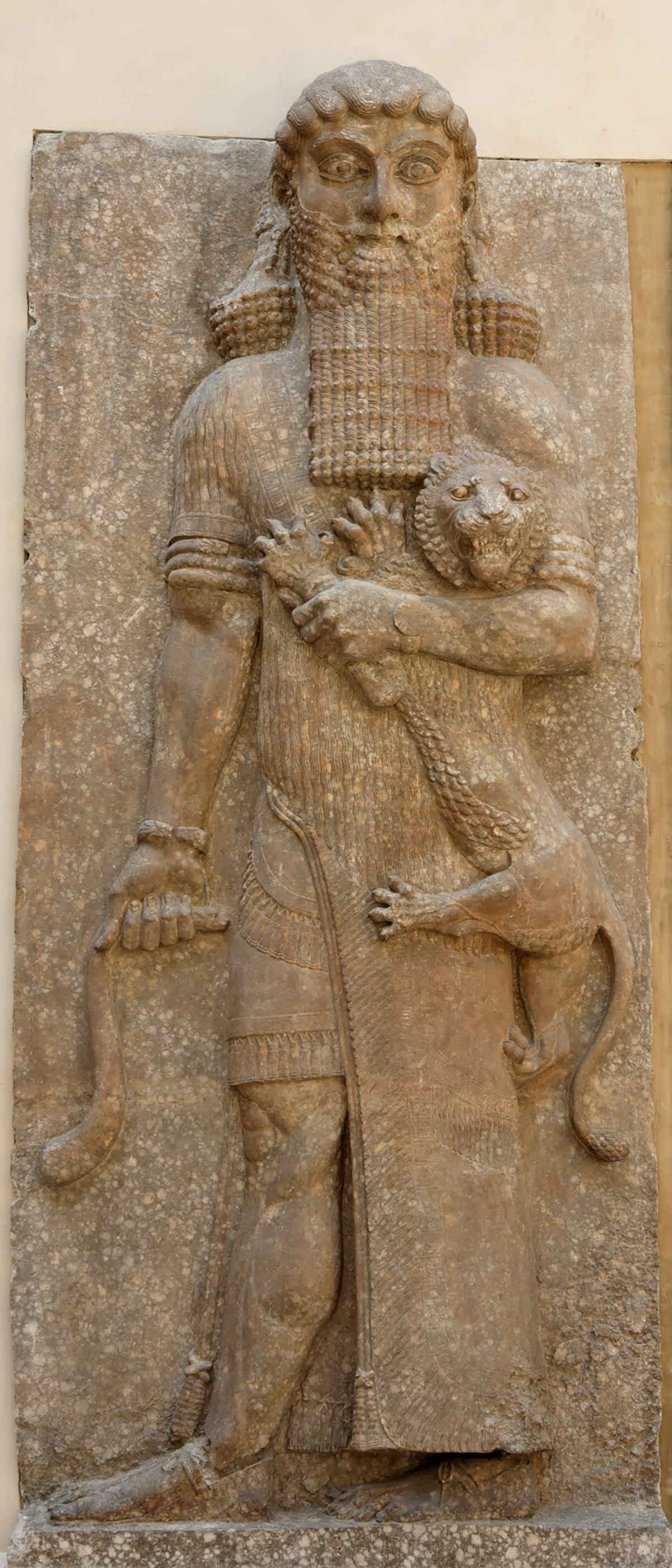 Hero mastering a lion. Relief from the façade of the throne room, Palace of Sargon II at Khorsabad (Dur Sharrukin), 713–706 BCE.